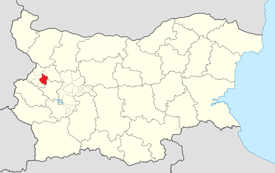 Location map of Kostinbrod Municipality within Bulgaria and Sofia province